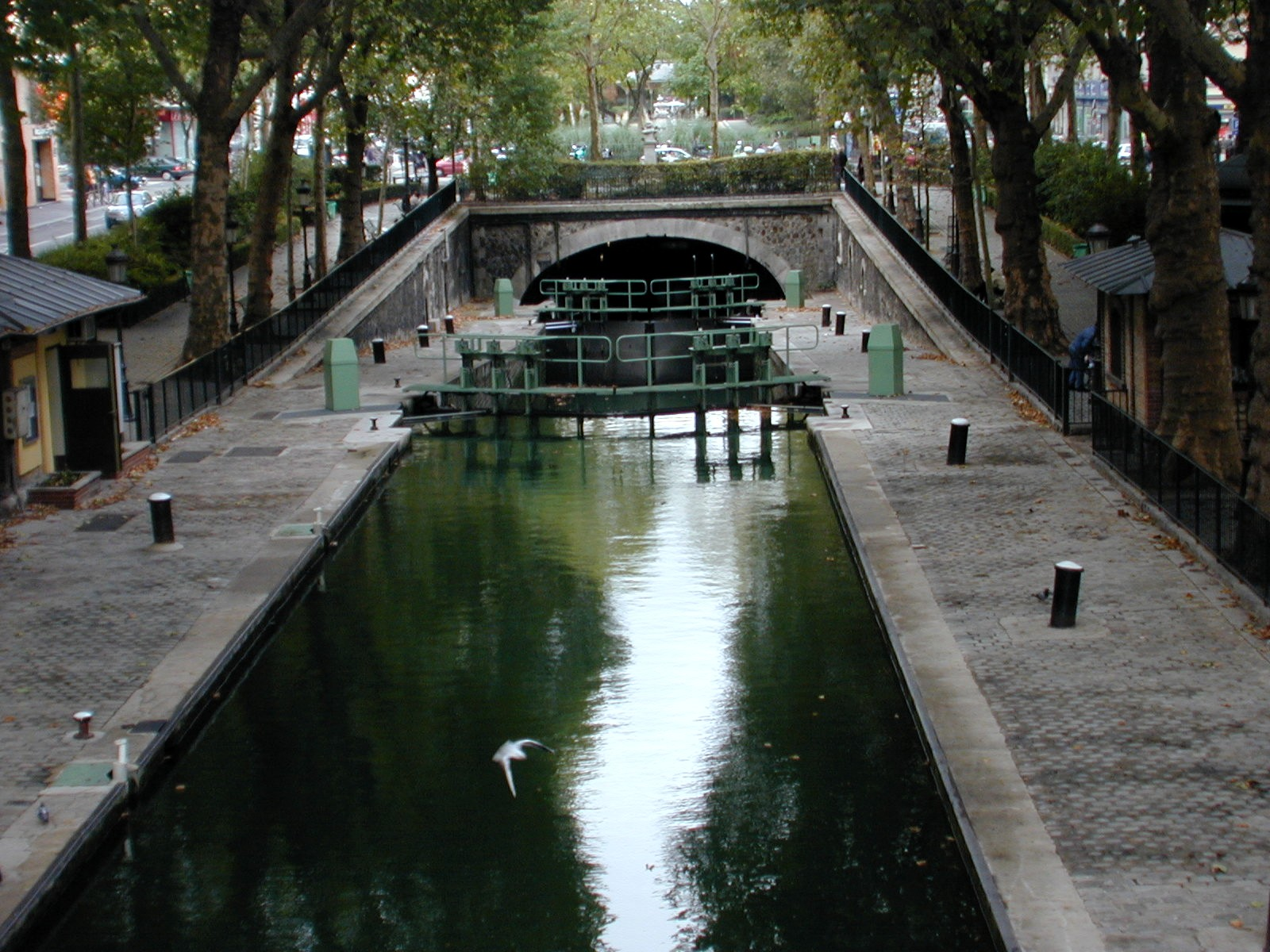 The point at which Canal Saint-Martin goes underground